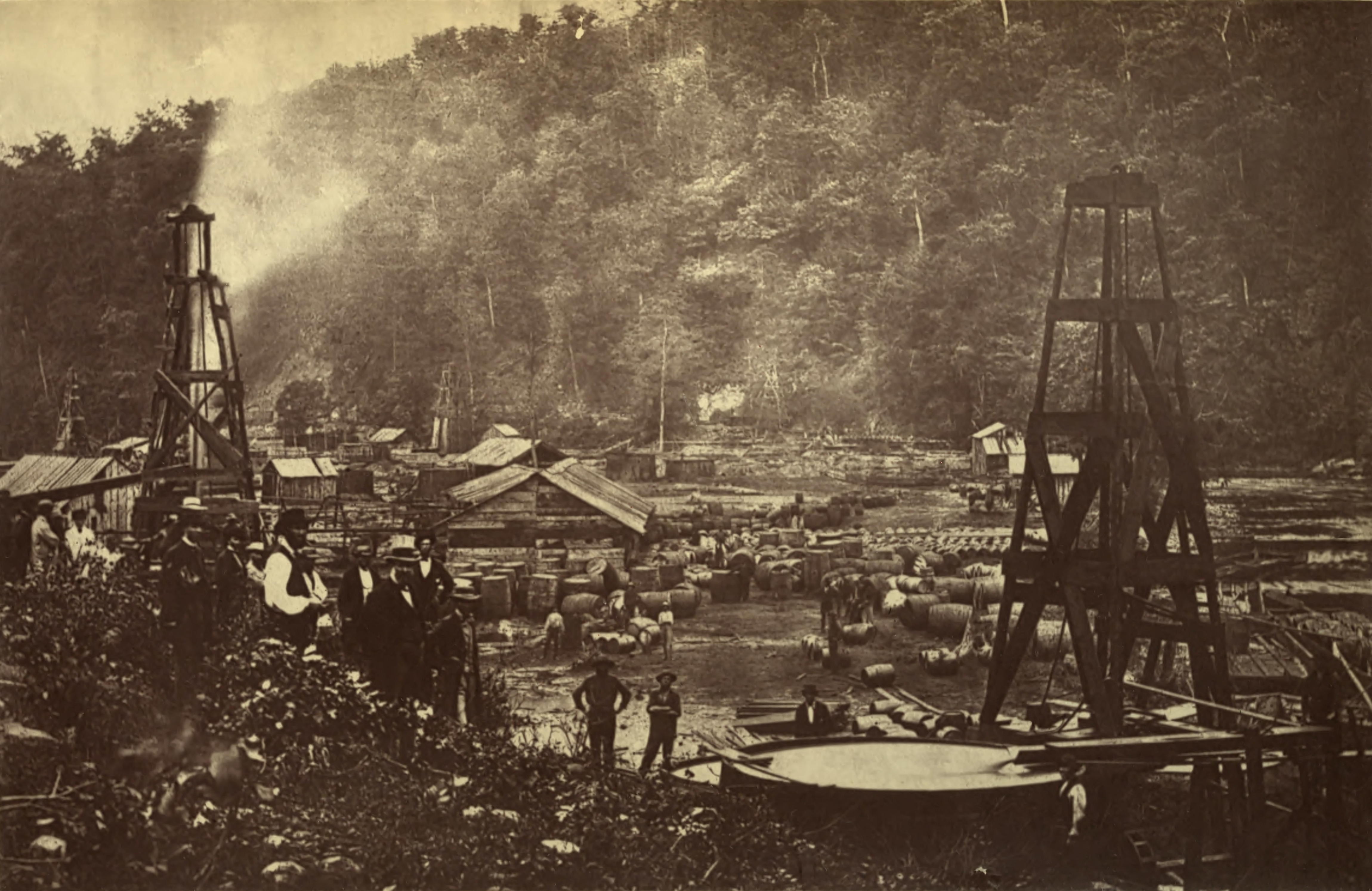 The Phillips and Woodford Wells. (James S.) Tarr Farm. Woodford Well (left), struck in Sept. 1861. Phillips Well (right), struck in Sept. 1861. Woodburytype from a photo of Mather of Titusville. A.P.R.P. Co., Philia. See history of 'Flowing Wells'.